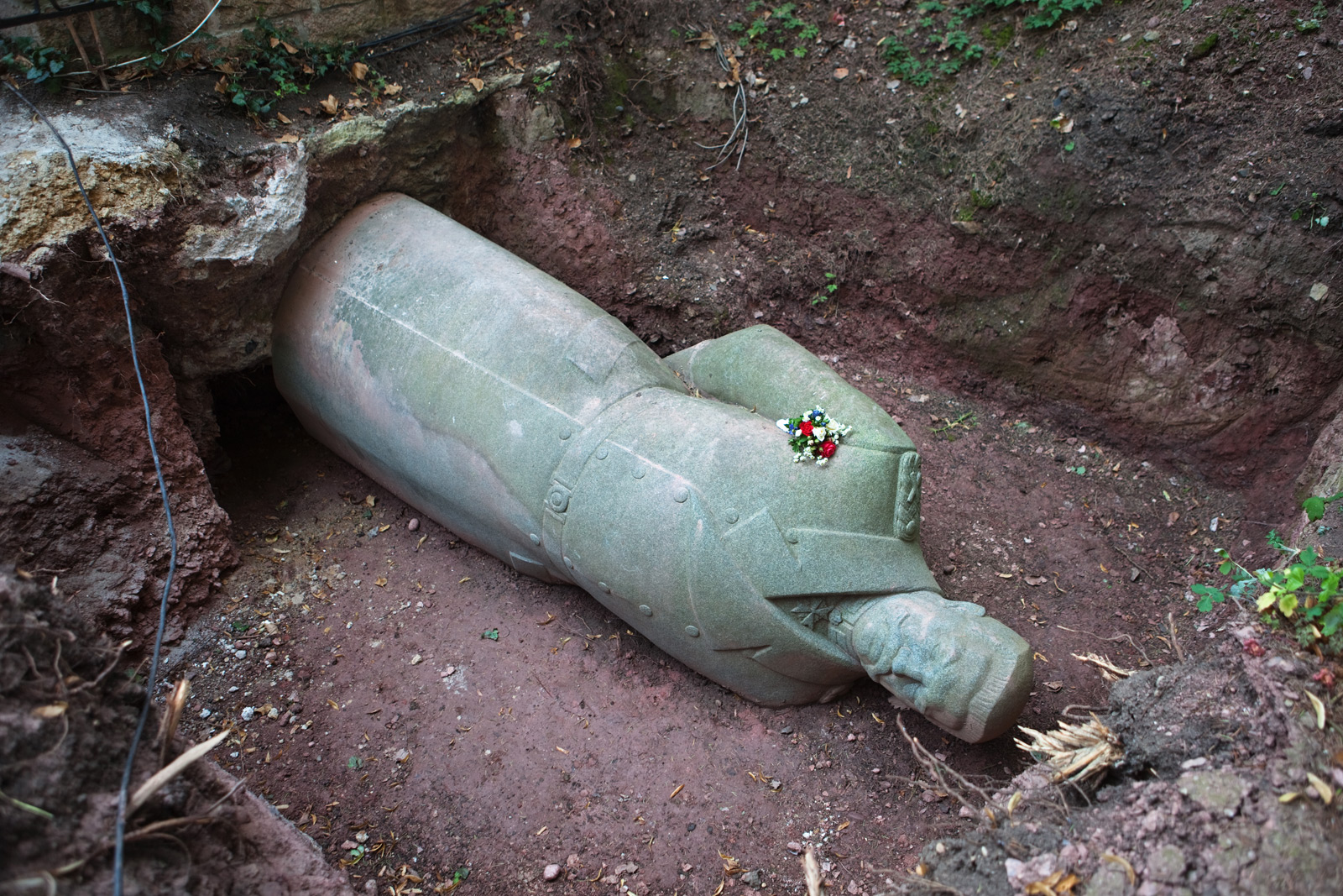 Resurrected Hindenburg Statue by Hermann Hosaeus located close to the Kyffhäuser Monument. – The picture was first published in b/w in the book "Die Südharzreise" ("The South Harz Journey"), by SuKuLTuR, Berlin, in 2010. The entire book was released under CC by-nc-sa 3.0, all pictures have been re-licensed under CC by-sa, see user page for details. – Picture taken with a Canon EOS 5D Mark II.